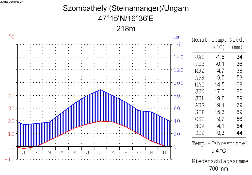 climate chart in the format by Walter and Lieth, metric, °Celsisus and millimeters, made with Geoklima 2.1